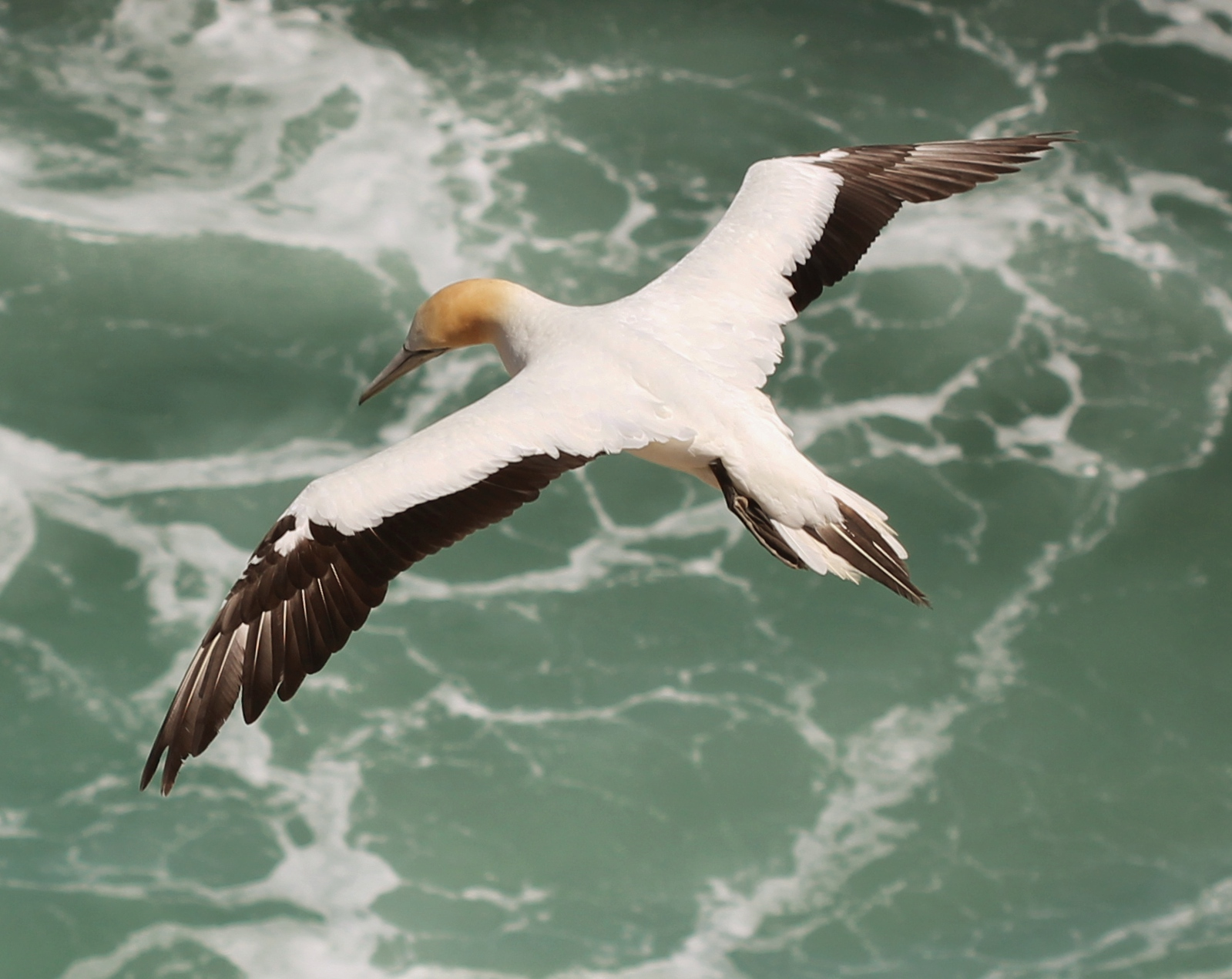 An Australasian Gannet (Morus serrator) flying over the sea at the Muriwai gannet colony, near Auckland, New Zealand.